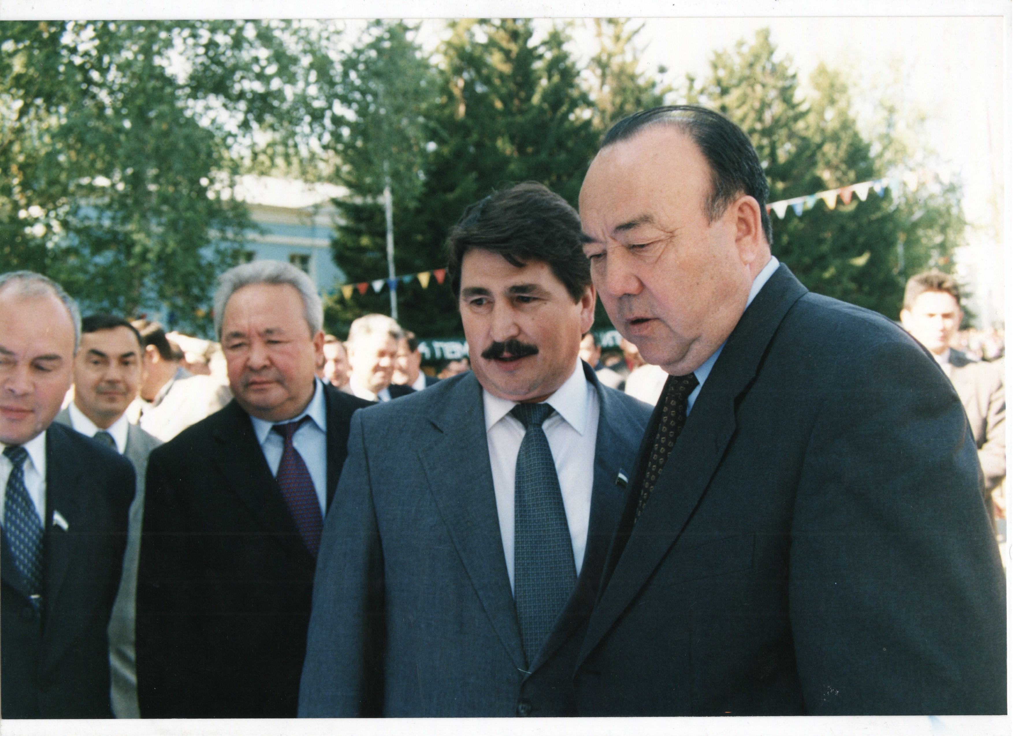 Ахметов Хамза Раисович